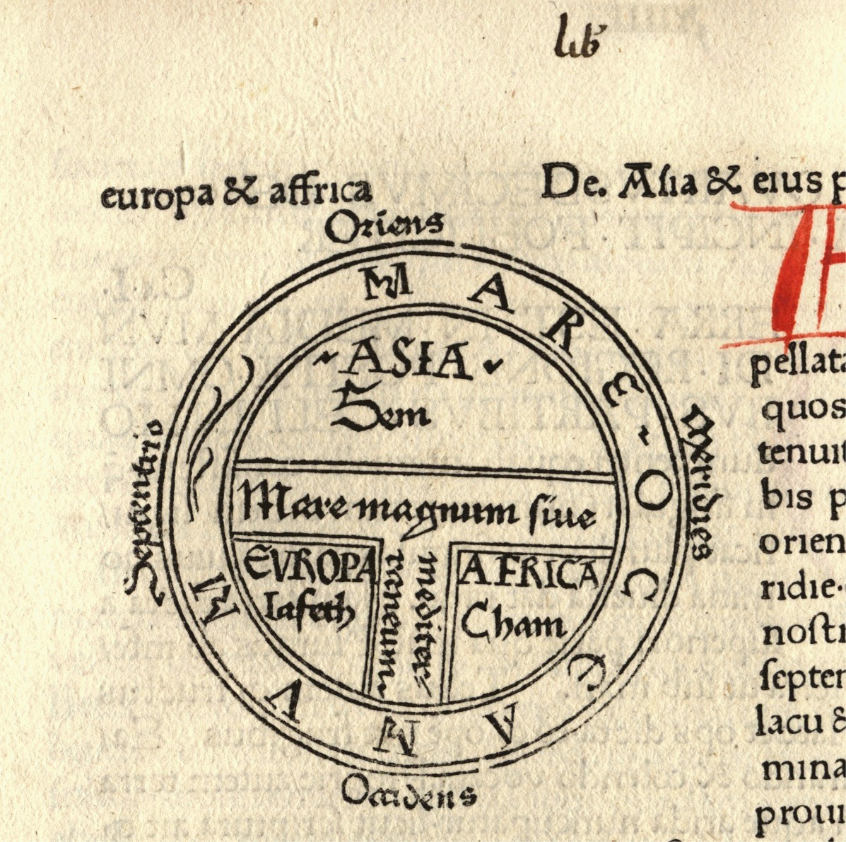 T and O style mappa mundi (map of the known world) from the first printed version of Isidorus' Etymologiae (Kraus 13). The book was written in 623 and first printed in 1472 at Augsburg by one Günther Zainer (Guntherus Ziner), Isidor's sketch thus becoming the oldest printed map of the occident. Note: T-O-maps are typically displayed "East-up", show Jerusalem at the center and the paradise at the outmost East, balanced by the pillars of Hercules at the outmost West.